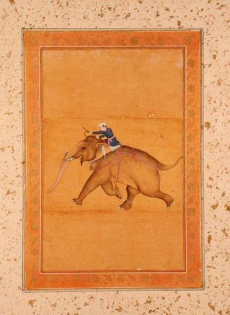 Mughal School - A Mahout riding an Elephant, from the Large Clive Album